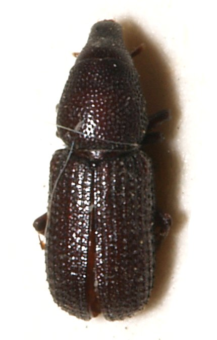 Hexarthrum culinaris